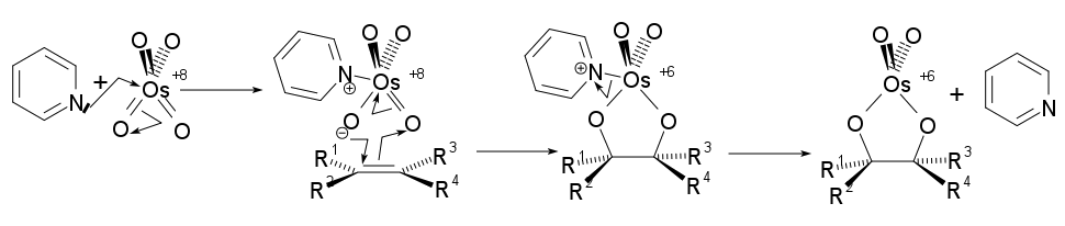 acceleration of dihydroxylisation reaction with OsO4 by Pyridine